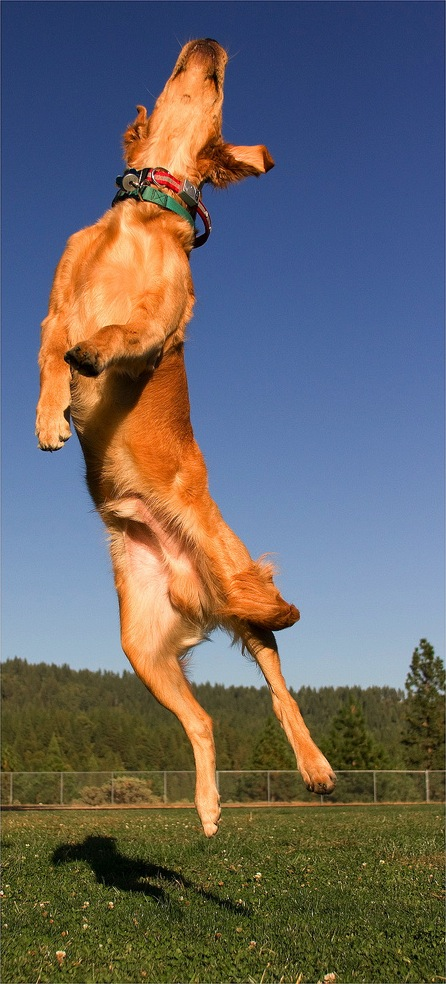 Golden retriever puppy jumping.